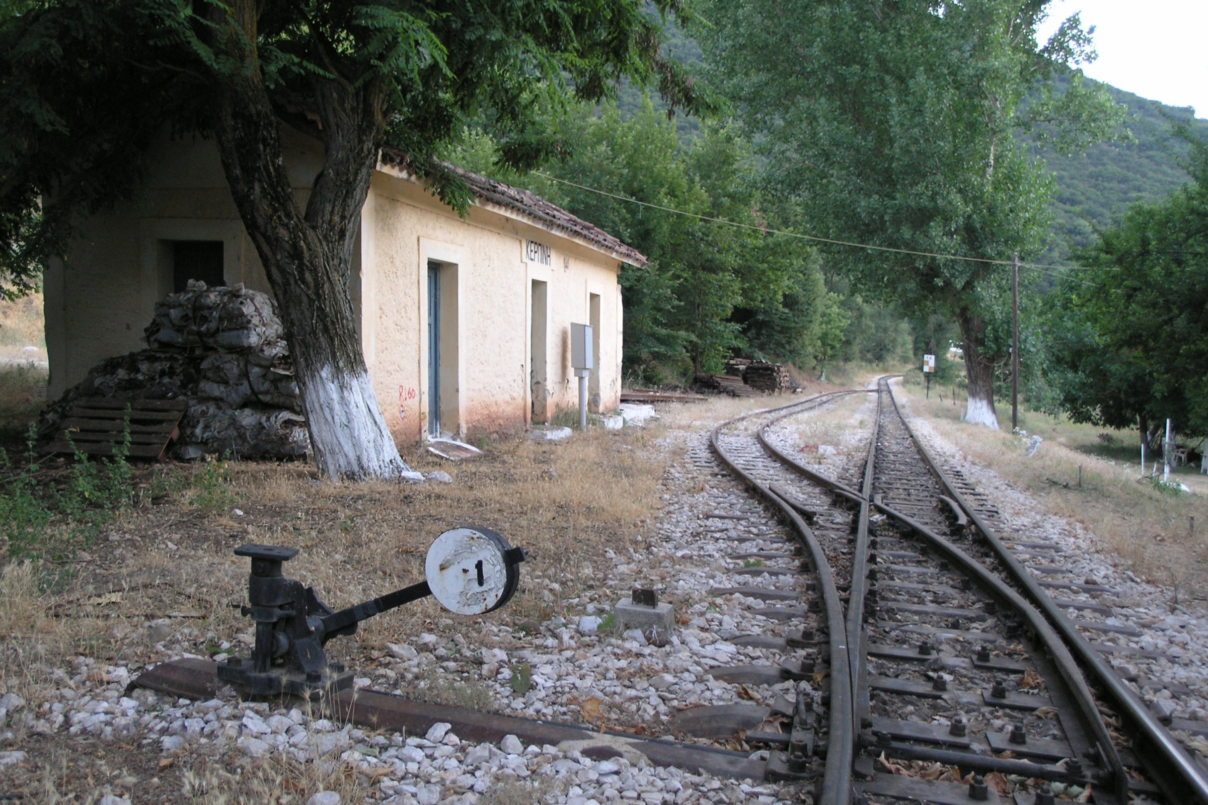 Diakofto Kalavrita Railway, Kerpini station.